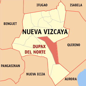 Map of Nueva Vizcaya showing the location of Dupax del Norte